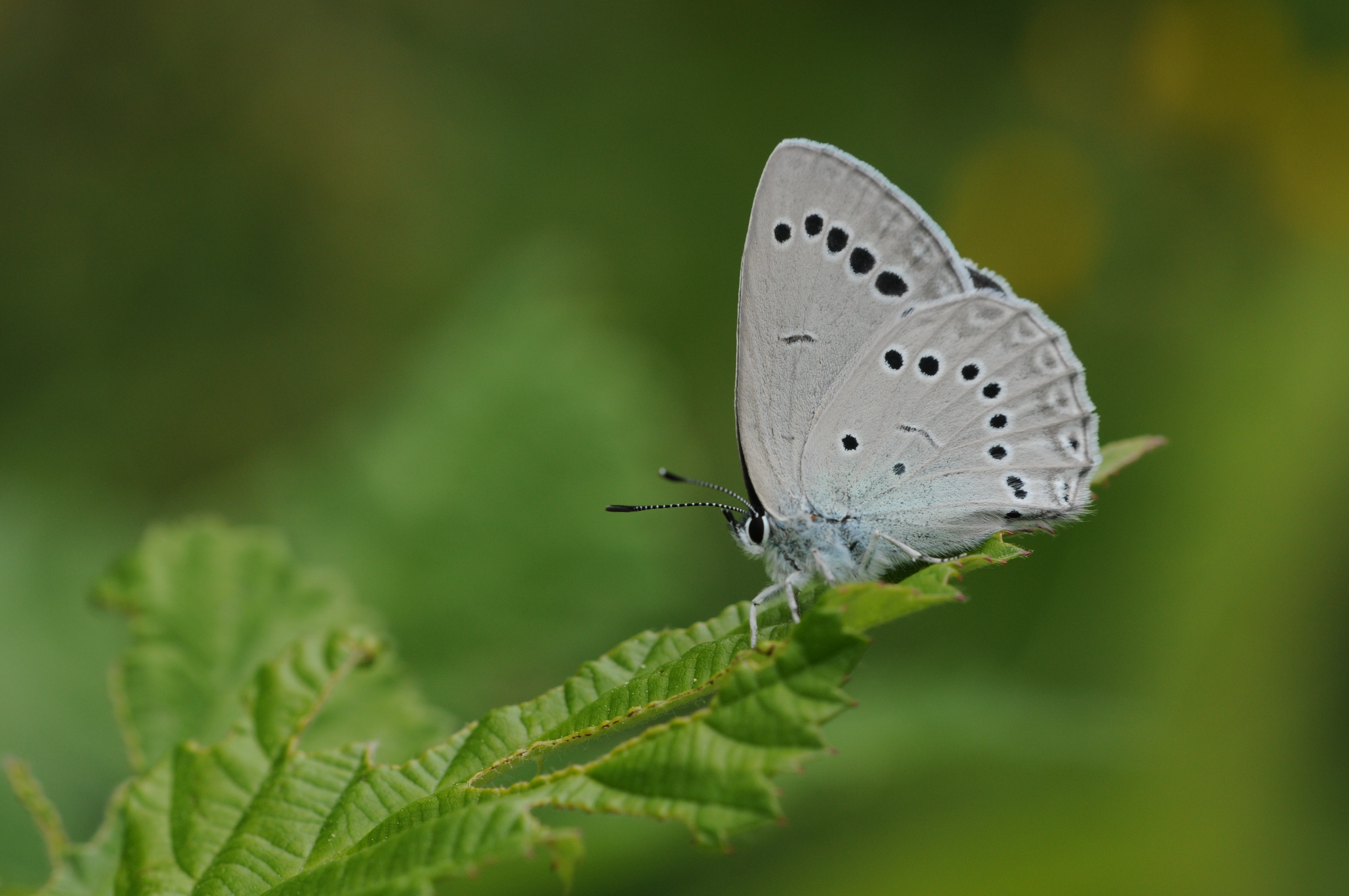 Wing underside view of a male specimen of Iolas Blue, one of the largest blue butterflies. Caglayan, Osmaniye - Turkey. (yükselti: 1400 m).